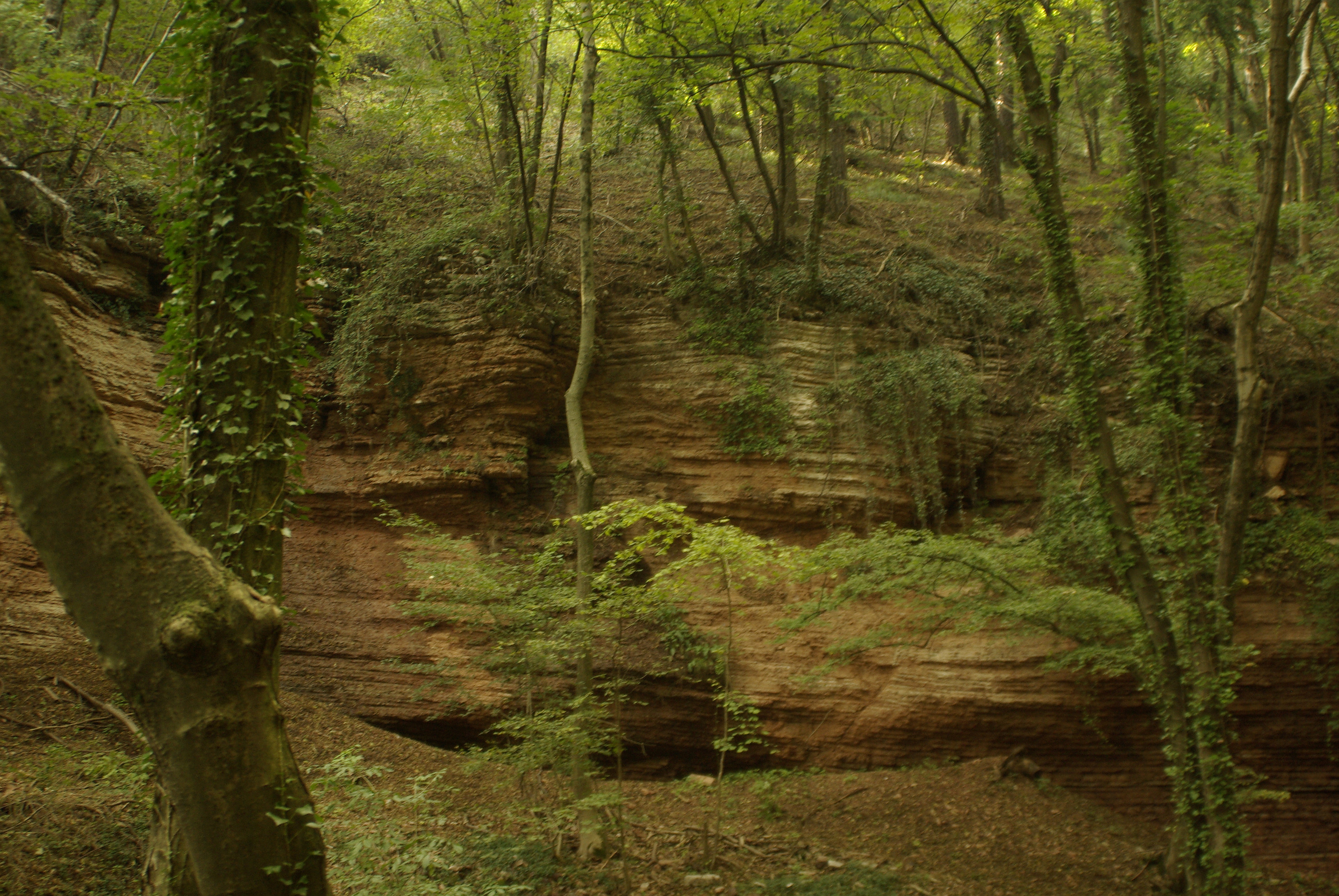 Outcrop of Rosso ammonitico - Alpe del Viceré (Albavilla prov. Como)